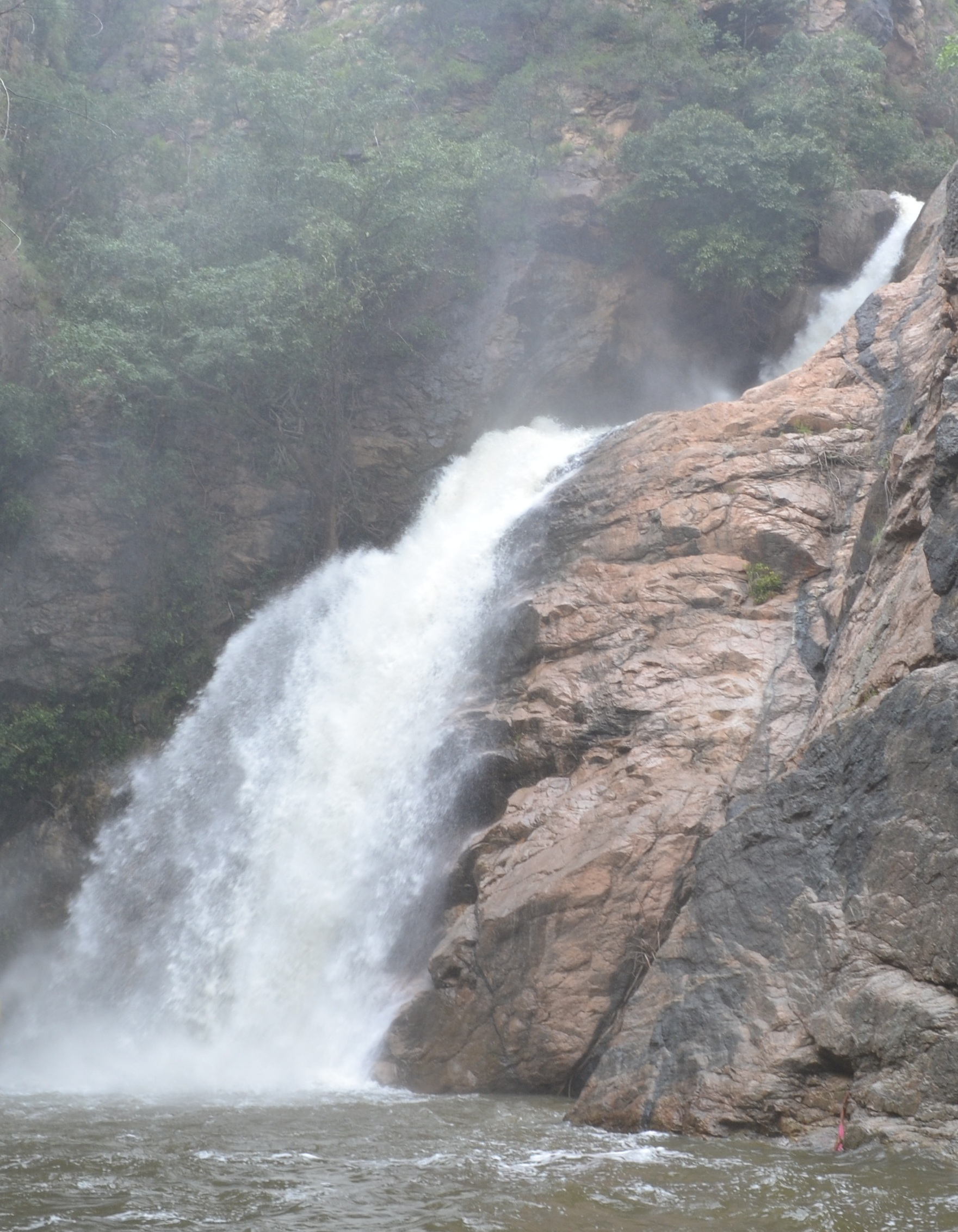 600ft waterfalls